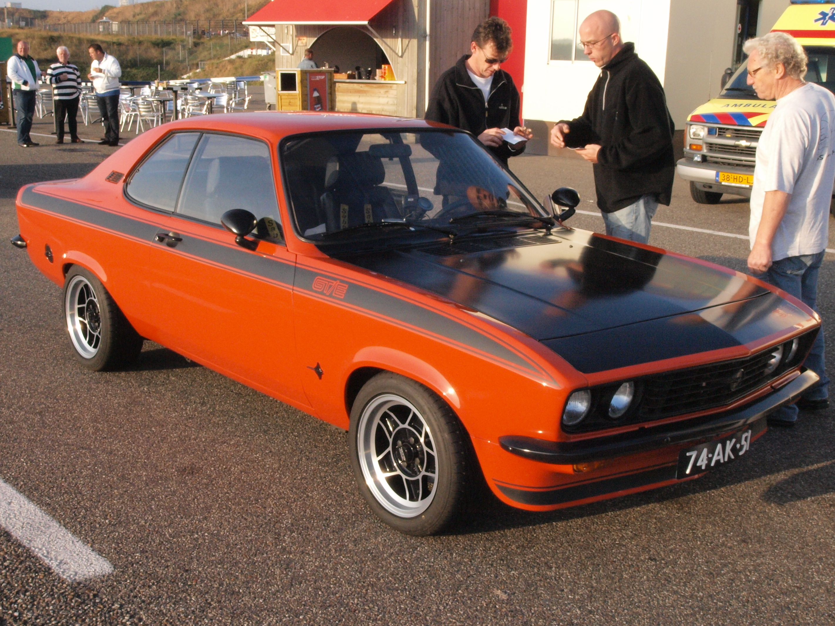 Photographed at the Nationaal Oldtimer Festival Zandvoort 2009, The Netherlands. OLYMPUS DIGITAL CAMERA